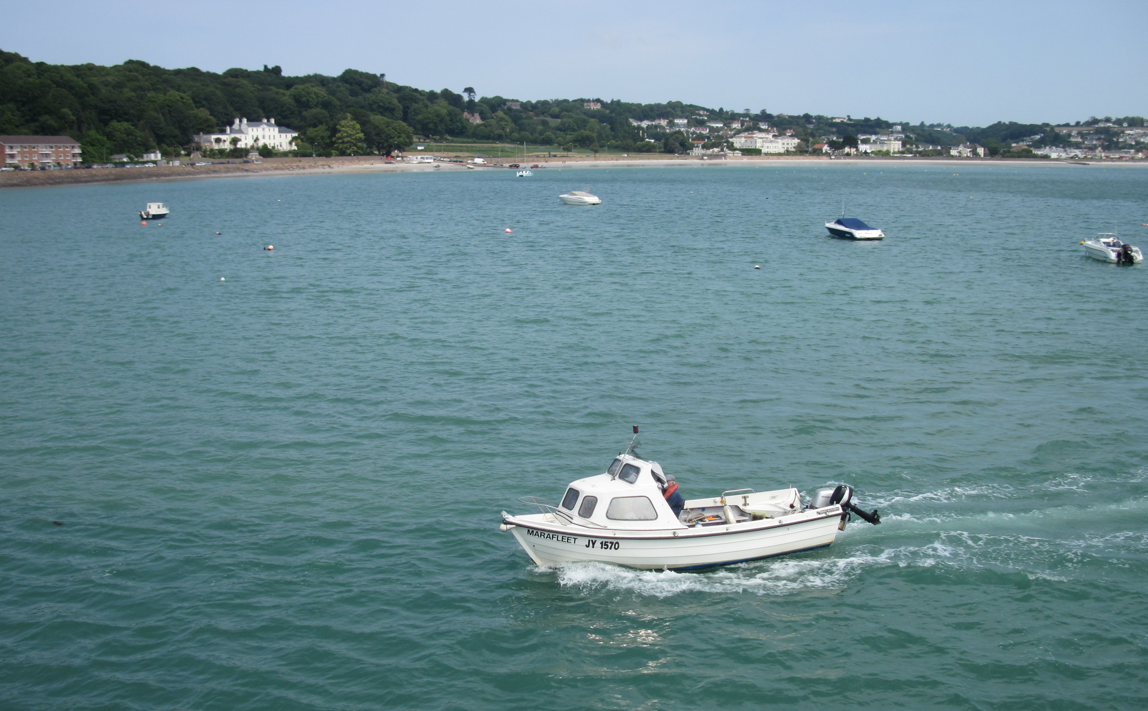 Saint Aubin, Saint Brelade, Jersey, 27 June 2013